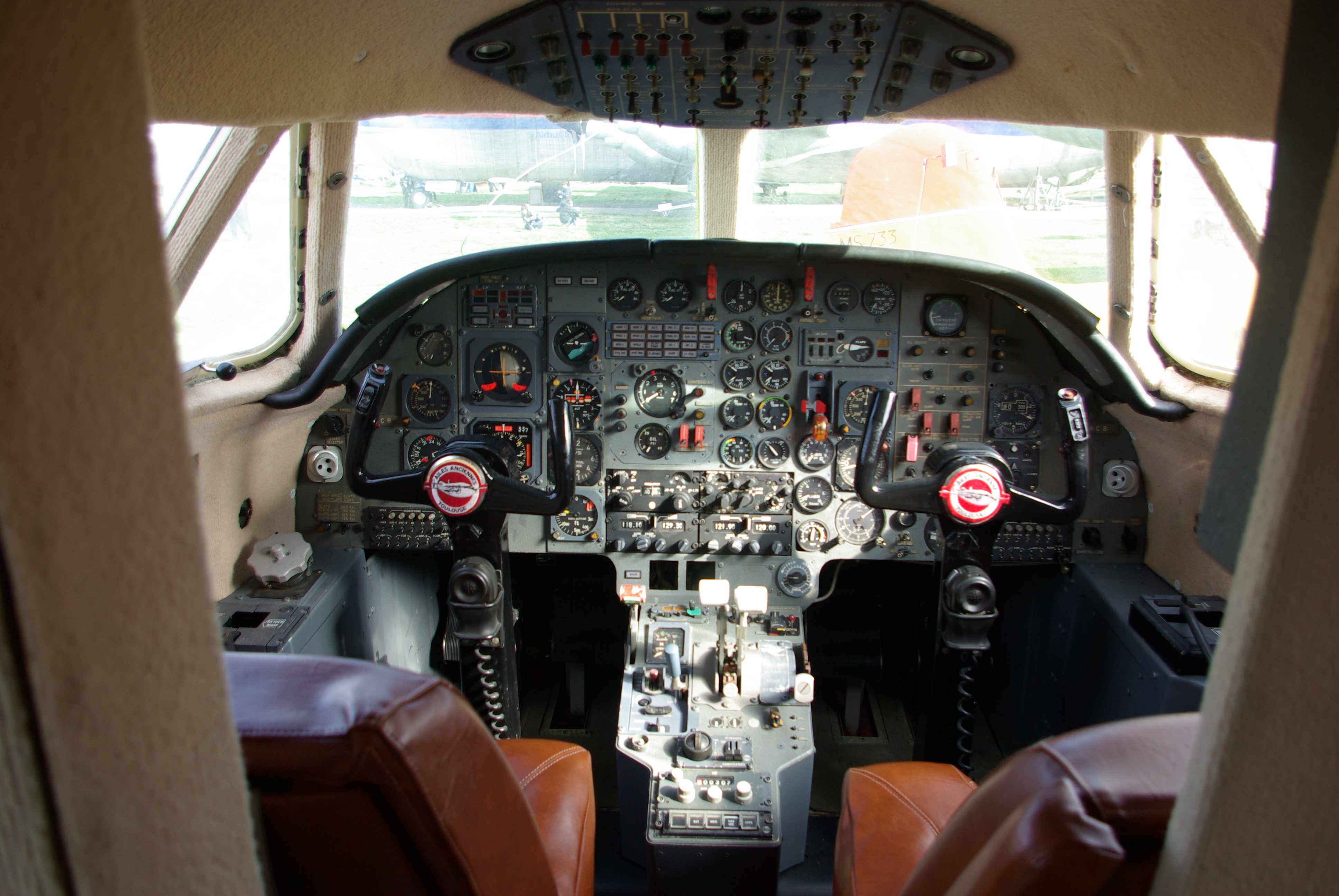 Cockpit of the prototype n°02 of the Falcon 10.